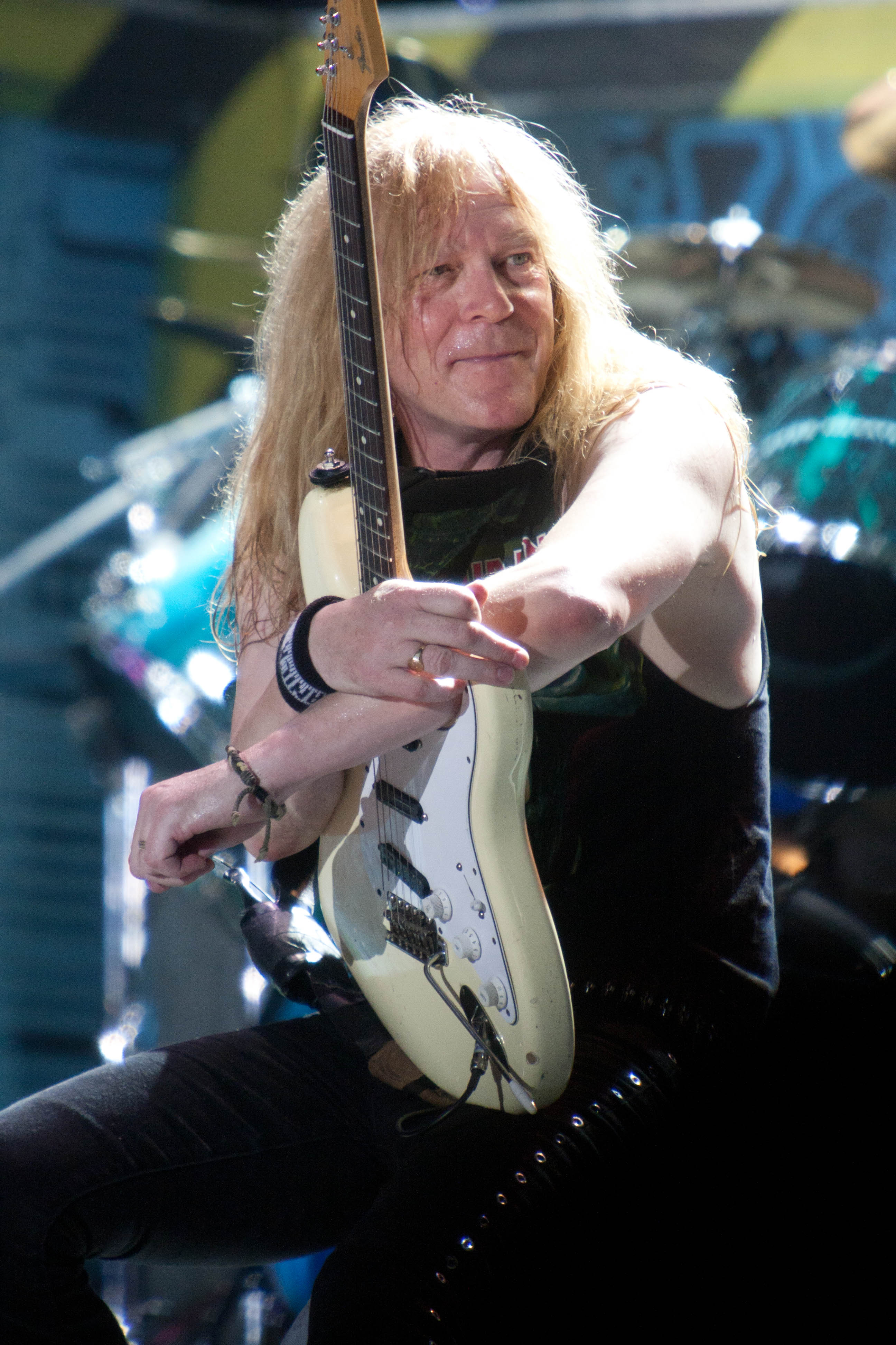 Janick Gers live at Ottawa Bluesfest 2010, Ontario.